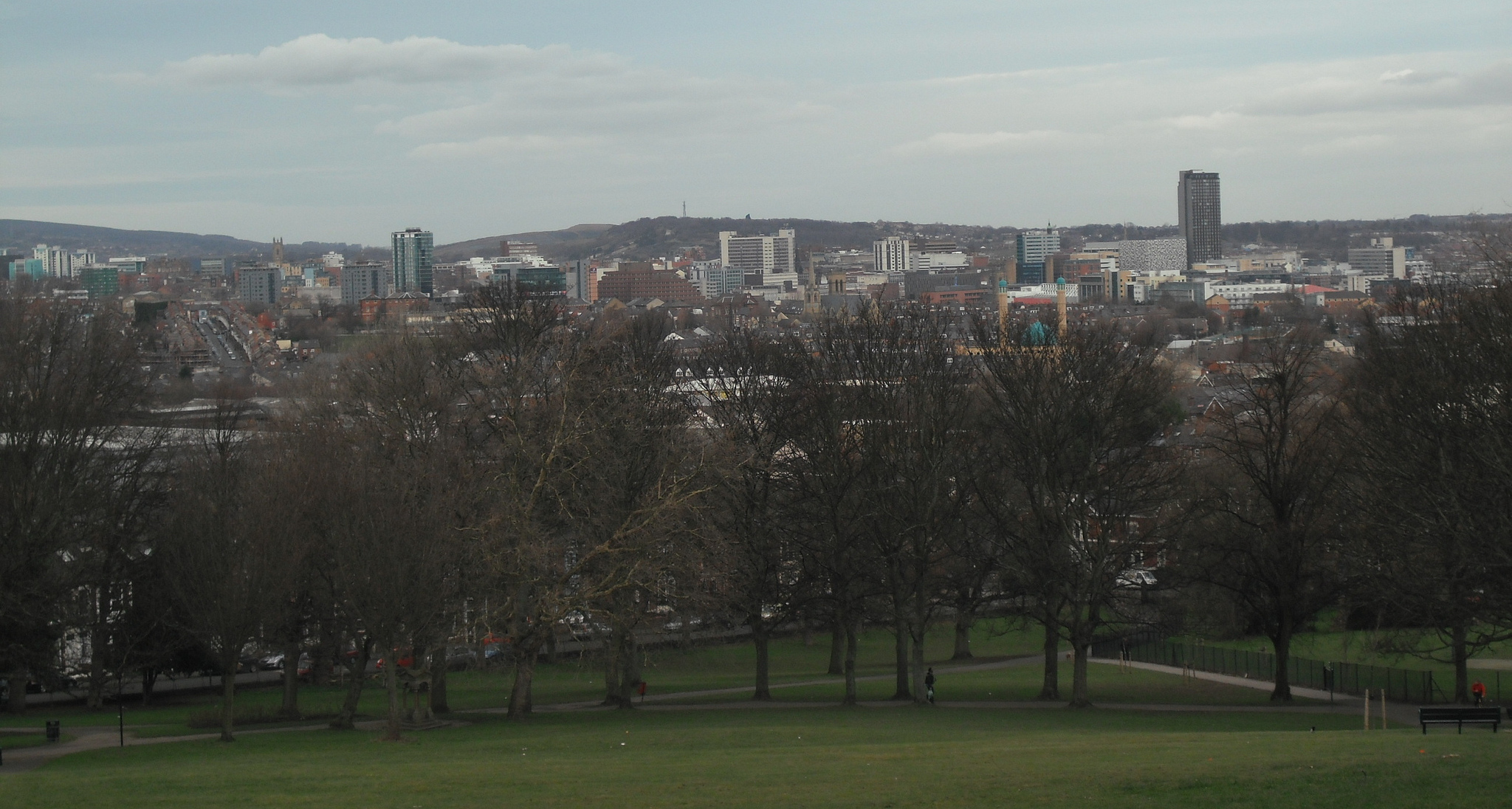 Meersbrook Park, Sheffield.